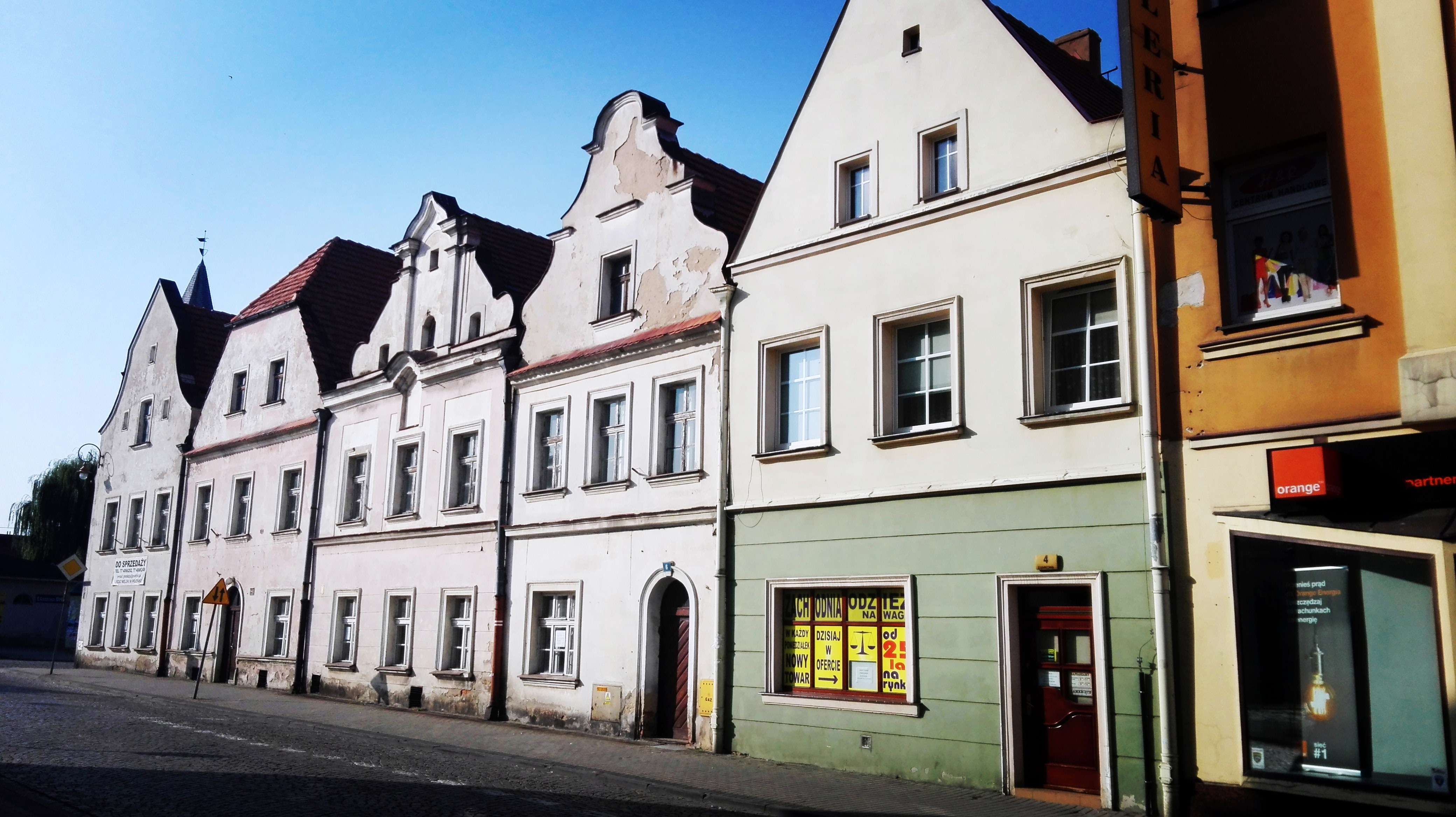 2-12 Zamkowa Street in Prudnik